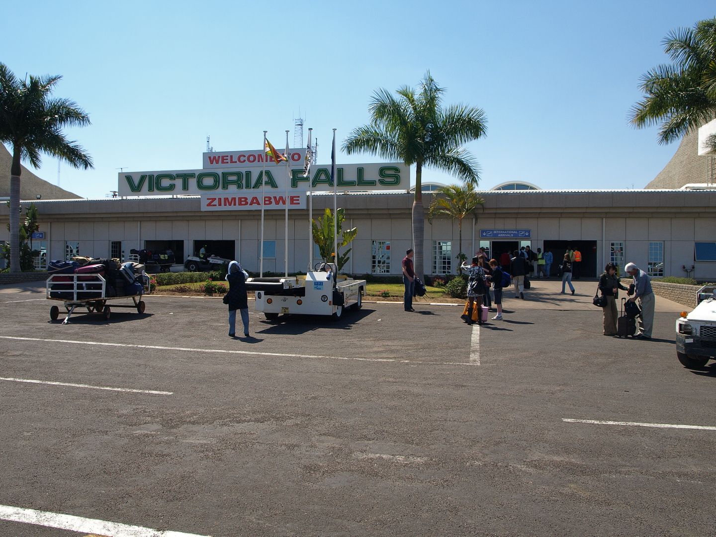 Arrivals of Victoria Falls Airport.